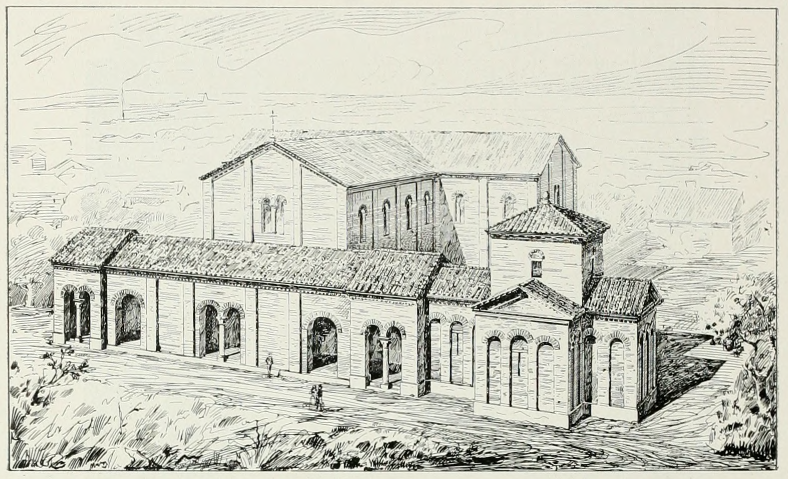 Reconstruction showing the connection between the original church of Santa Croce in Ravenna, and its chapel - now known as the mausoleum of Galla Placidia - to the right. Most of the church was demolished in 1602. From Corrado Ricci: Ravenna. English version, printed in Bergamo in 1913, page 58.